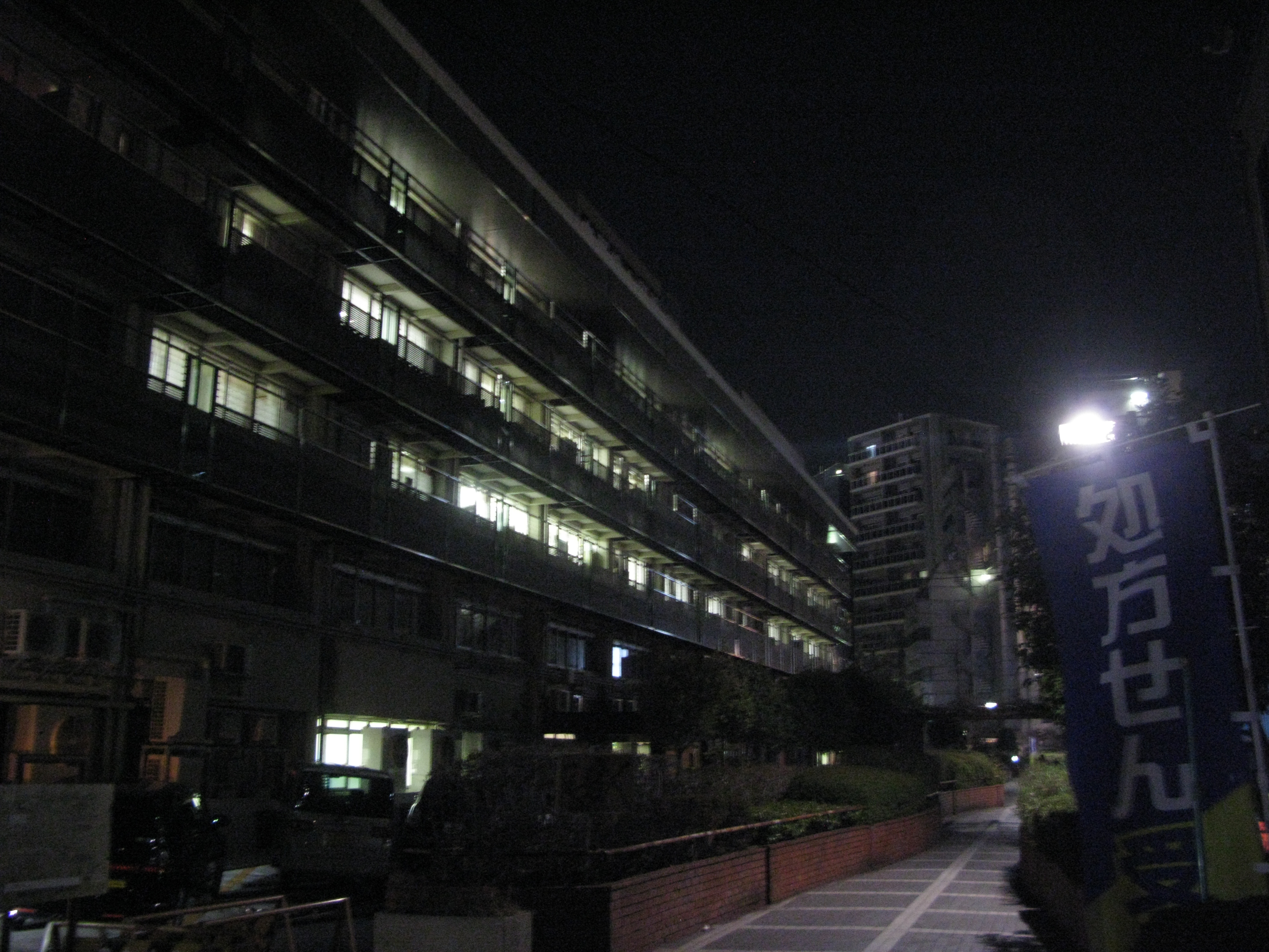 Momozonogawa-ryokudō(Chūō 4-chome,Nakano-ku）,at night